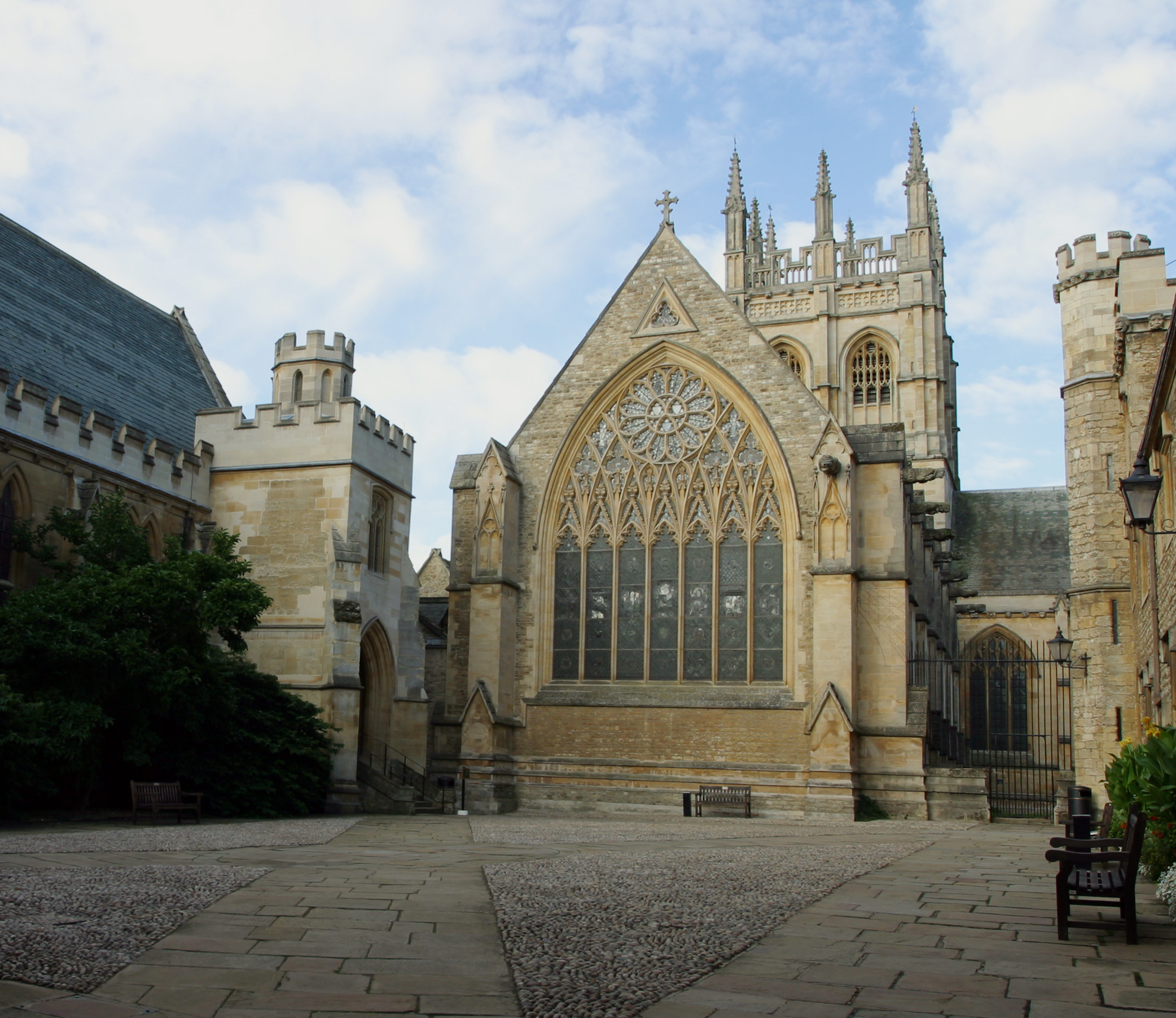 Merton College Chapel, Oxford, seen from the east from the Front Quad